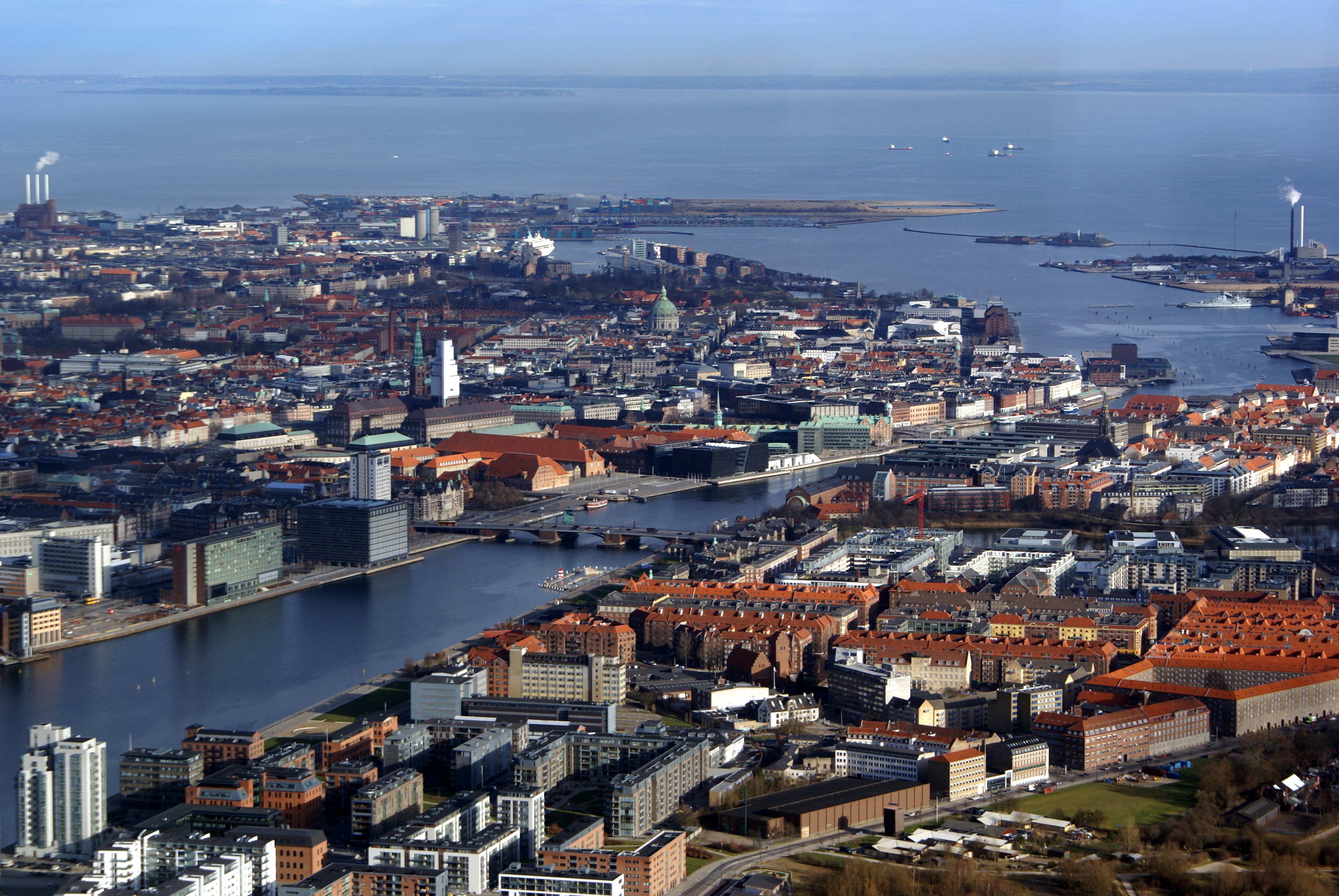 Copenhagen City from the air. Seen from south-east.